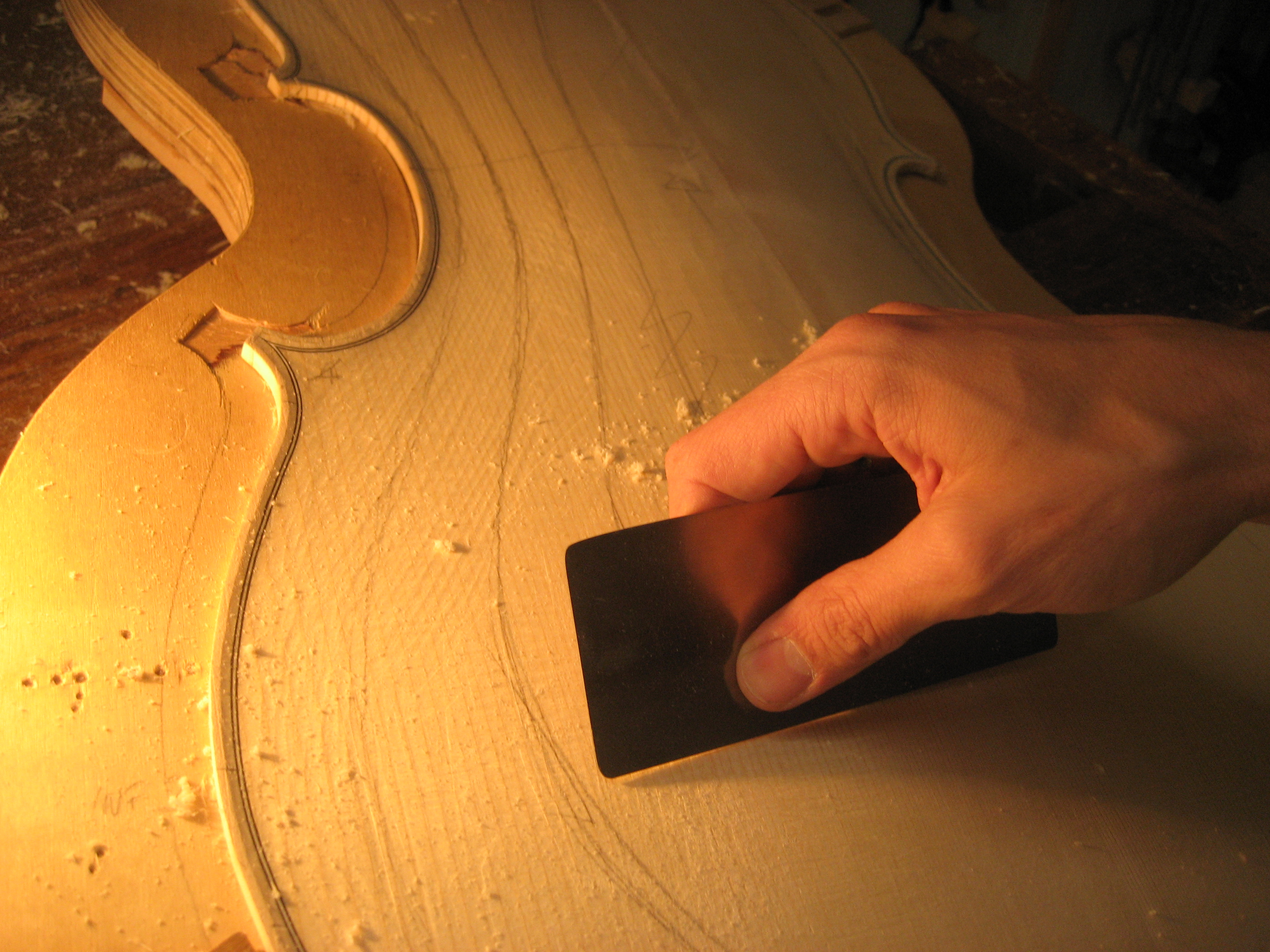 Building of violin - Arching is finished with a card scraper; a thin piece of steel with a sharp edge. It works almost like an ultrafine plane.